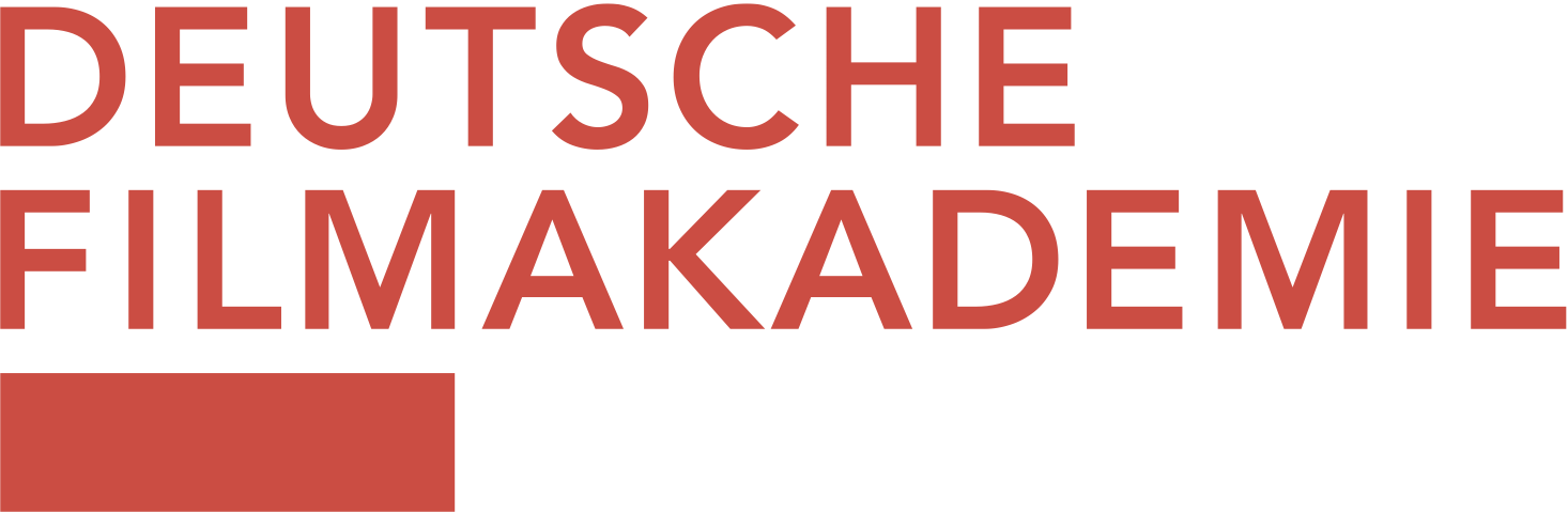 Logo of the Deutsche Filmakademie – from 2018